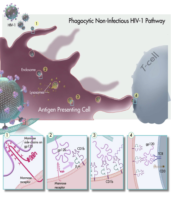 Phagocytic Non-Infectious HIV-1 Pathway